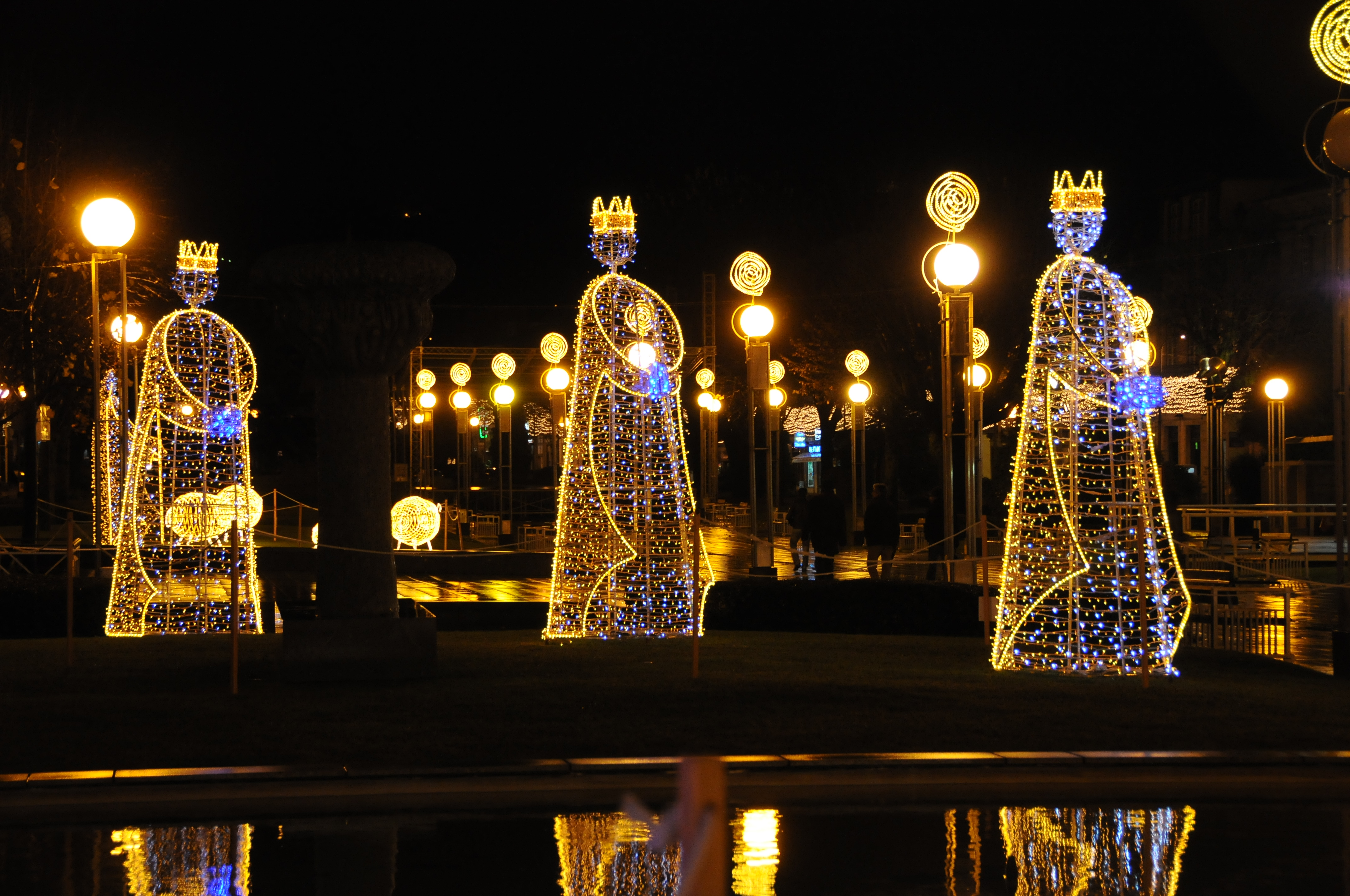 Christmas decorations in Braga, Portugal.